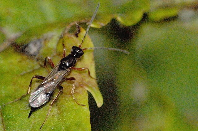 Zele caligatus from Commanster, Belgian High Ardennes .